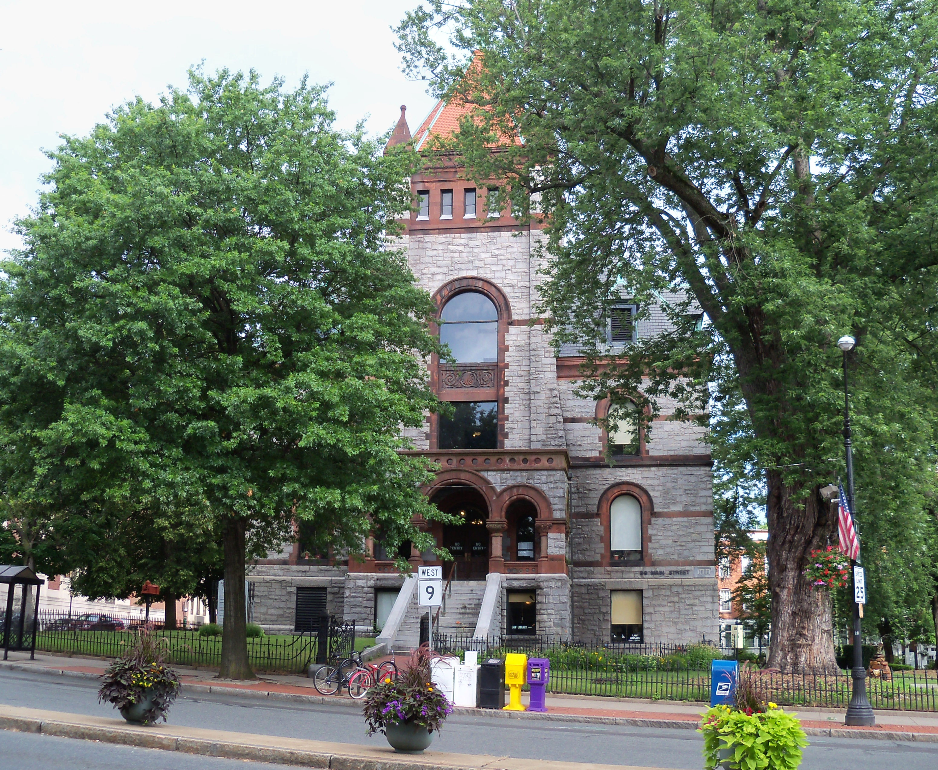 Hampshire County Courthouse in Northampton, Massachusetts, USA.